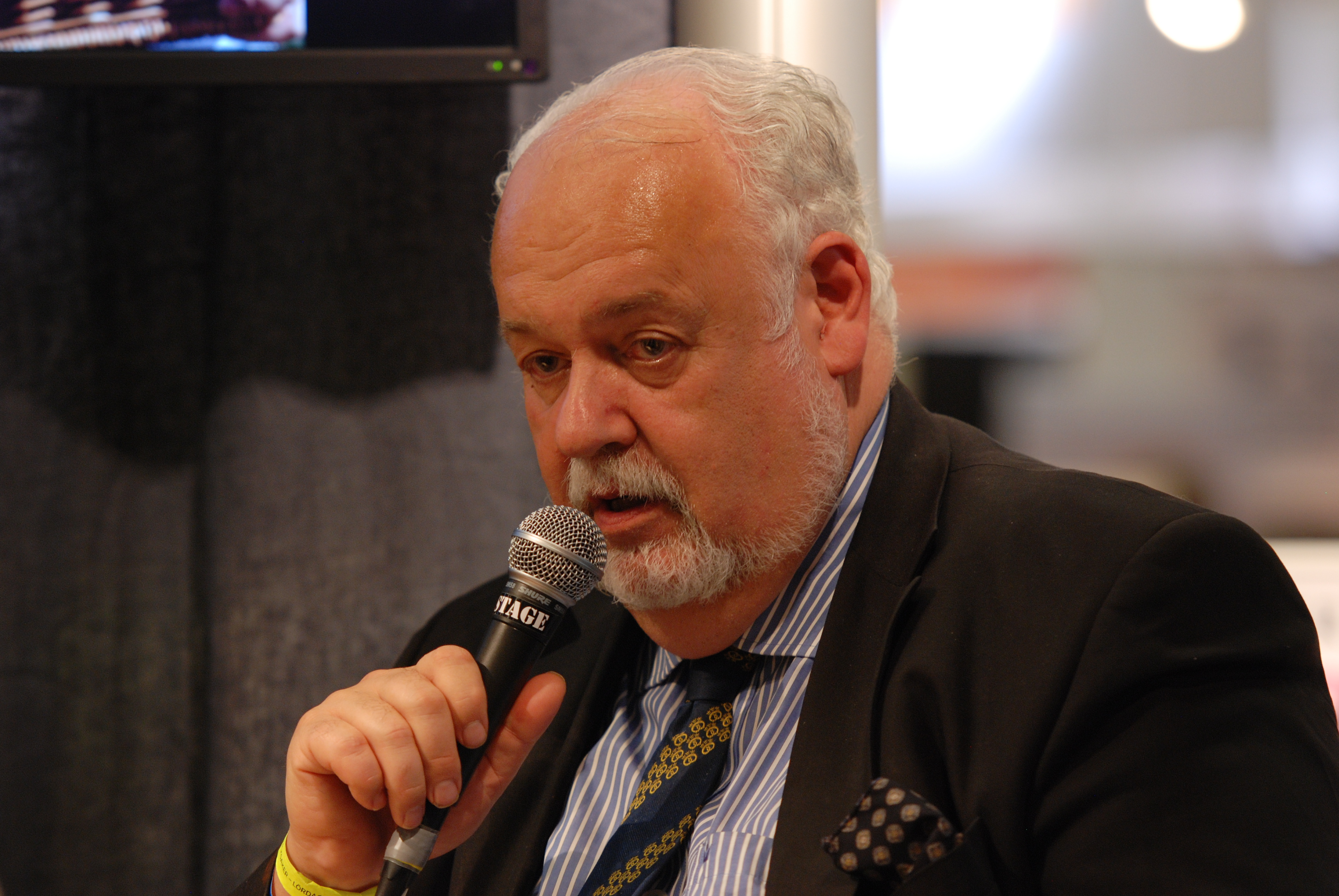 Baker and author Jan Hedh at Göteborg Book Fair 2011.